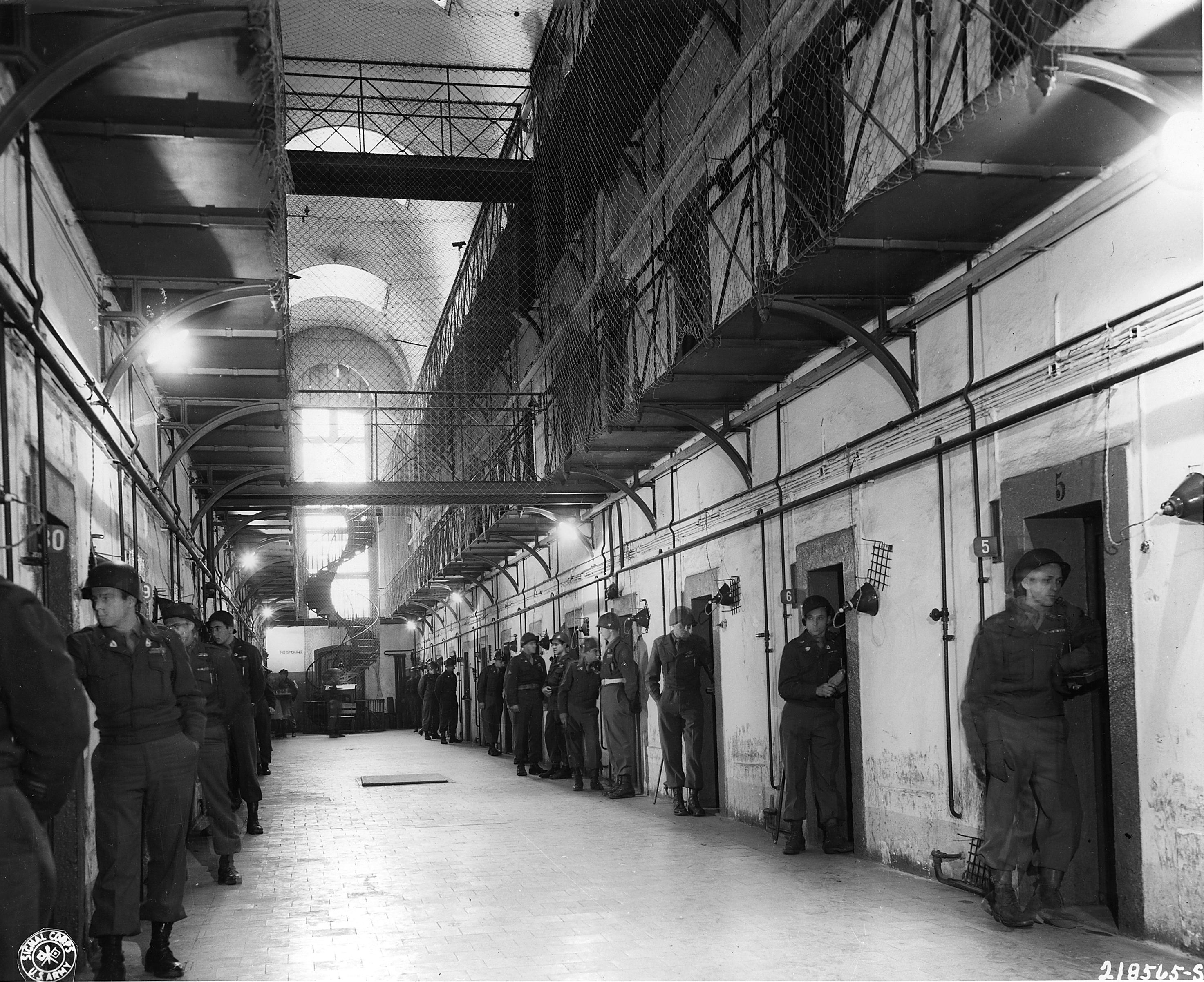 Main section of prisoners' call block in the Nuernberg jail. Cells occupiedby Goering and Hess are at extreme right. Each defendant is watched by an individual guard who is constantly posted at his door.